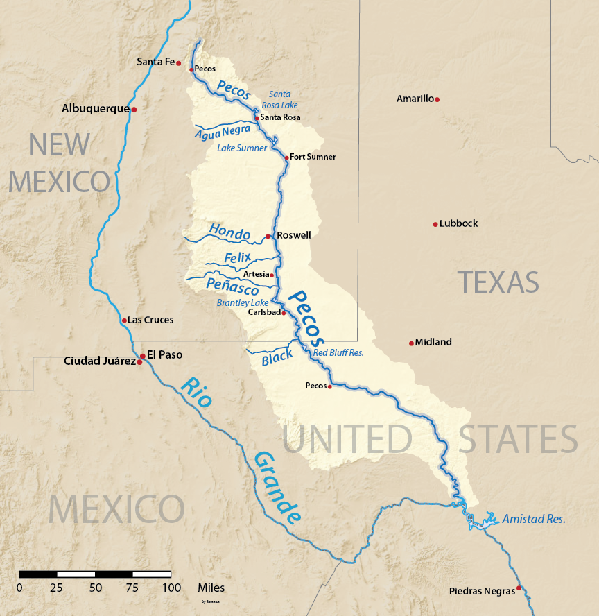 Map of the watershed of Pecos River, a tributary of the Rio Grande, in New Mexico and Texas, USA. Made using USGS National Map data.